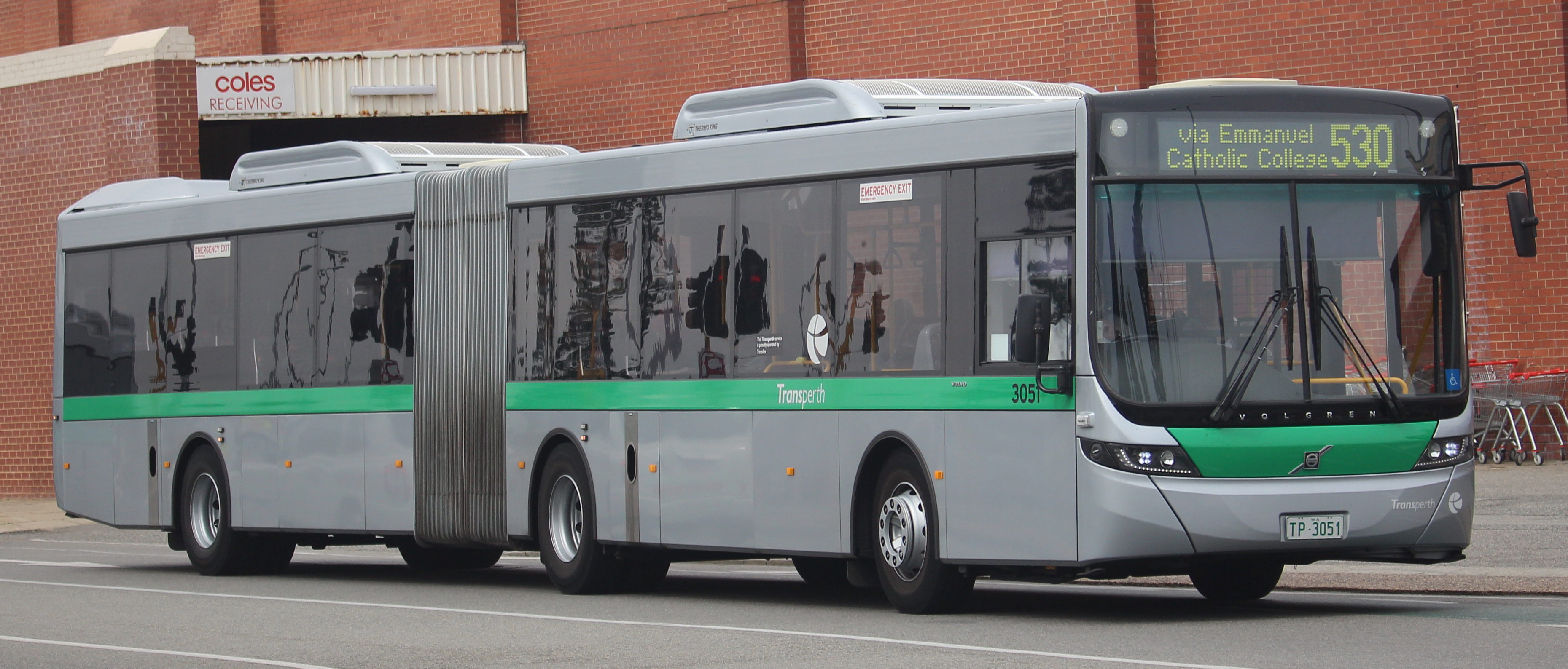 Volgren Optimus bodied Volvo B8RLEA diesel (#3051, TP3051: Built 2015) operating under Transdev on a route 530.